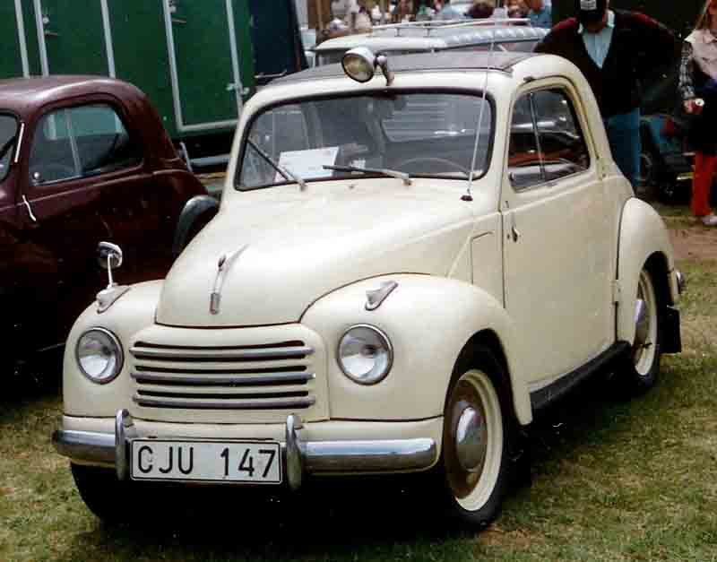 Fiat 500C 1952